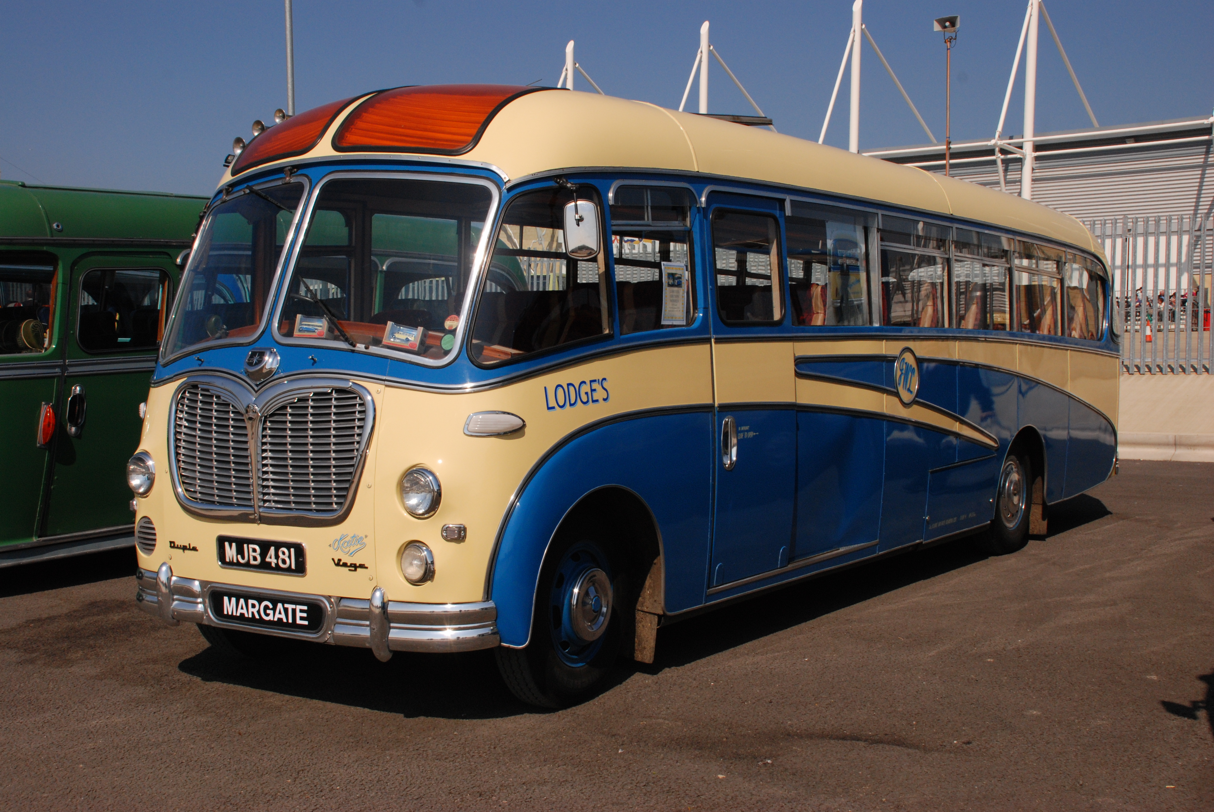 Lodge's Bedford SB / Duple, April 2010.